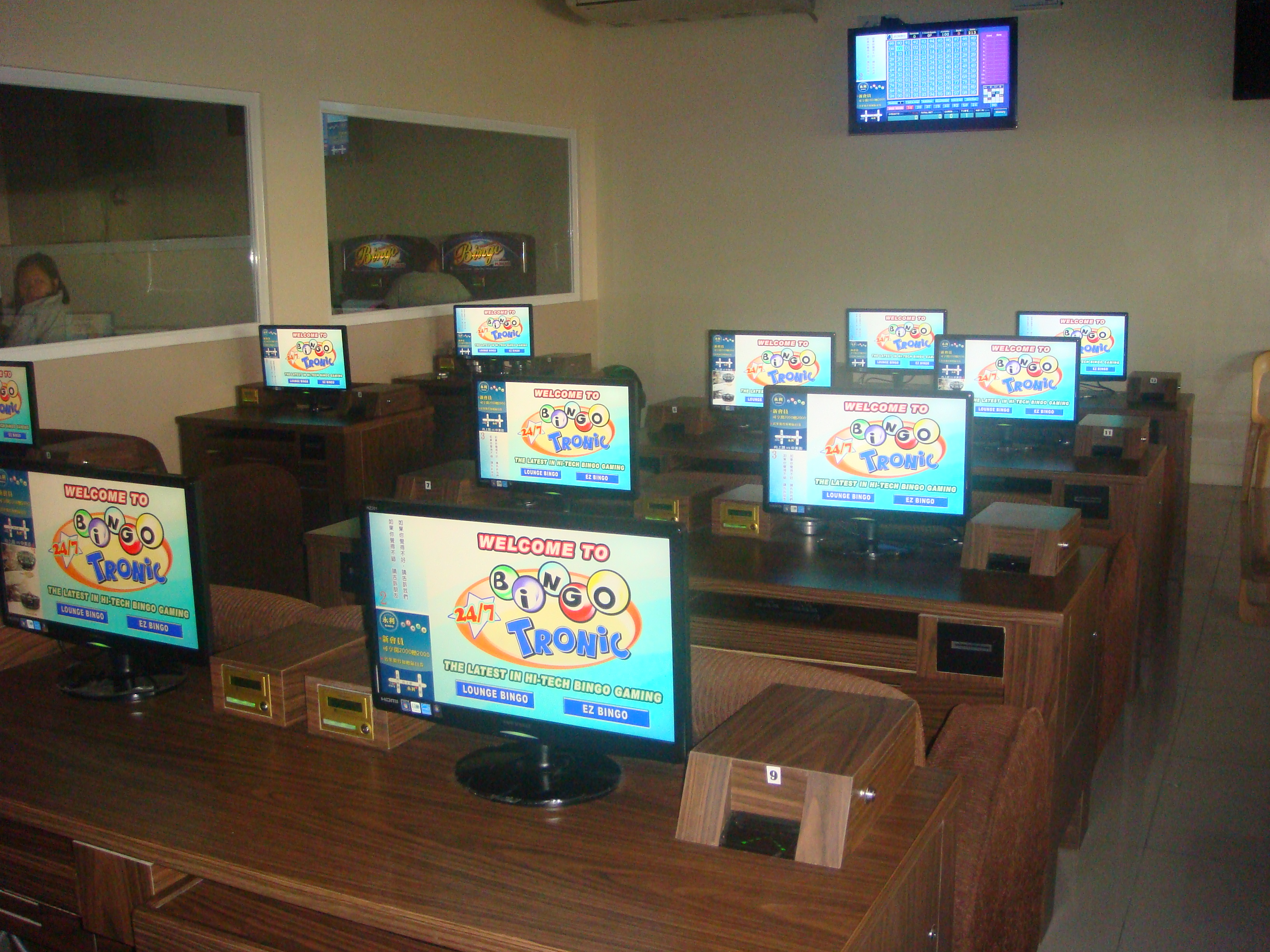 24/7 Bingo Tronic, Electronic Bingo, Robinsons Pulilan, Maharlika Highway, Pulilan, Bulacan